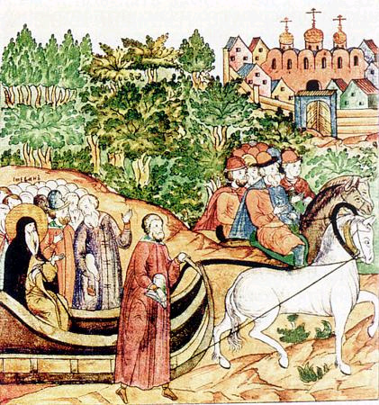 Saint Stephen of Perm on his way to Moscow.